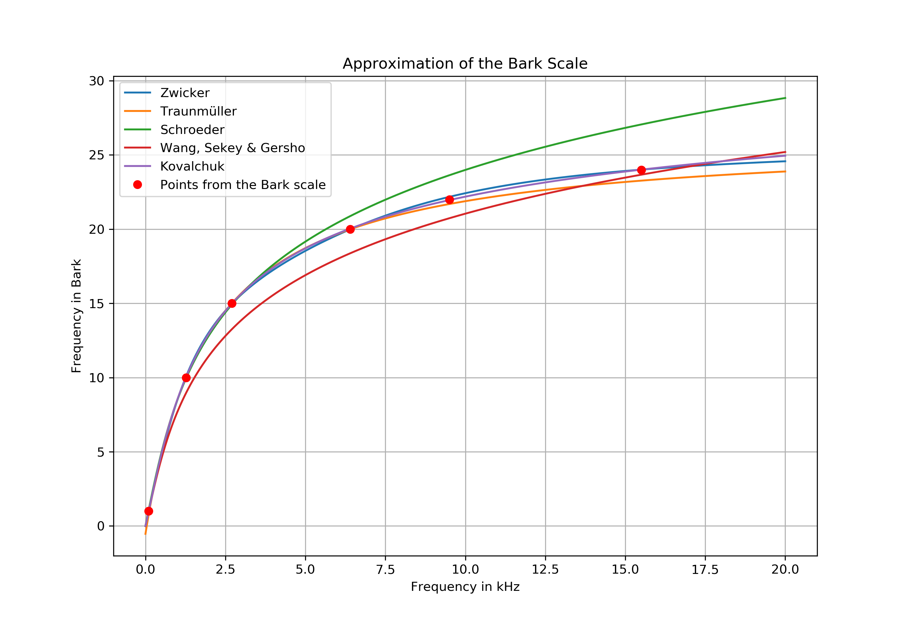 The comparison of the several Bark scale approximation models.